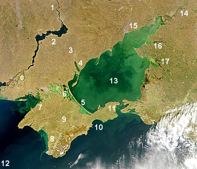 Satellite view of Azov Sea area. 1. Dnieper River, 2. Kakhovka Reservoir, 3. Molochna River, 4. Molochny Liman, 5. Arabat Spit, 6. Sivash lagoon system, 7. Karkinit Bay, 8. Kalamitsky Bay, 9. Crimea, 10. Fedosiysky Bay, 11. Strait of Kerch, 12. Black Sea, 13. Sea of Azov, 14. Don River (Russia), 15. Taganrog Bay, 16. Yeysk Liman, 17. Beisug Liman